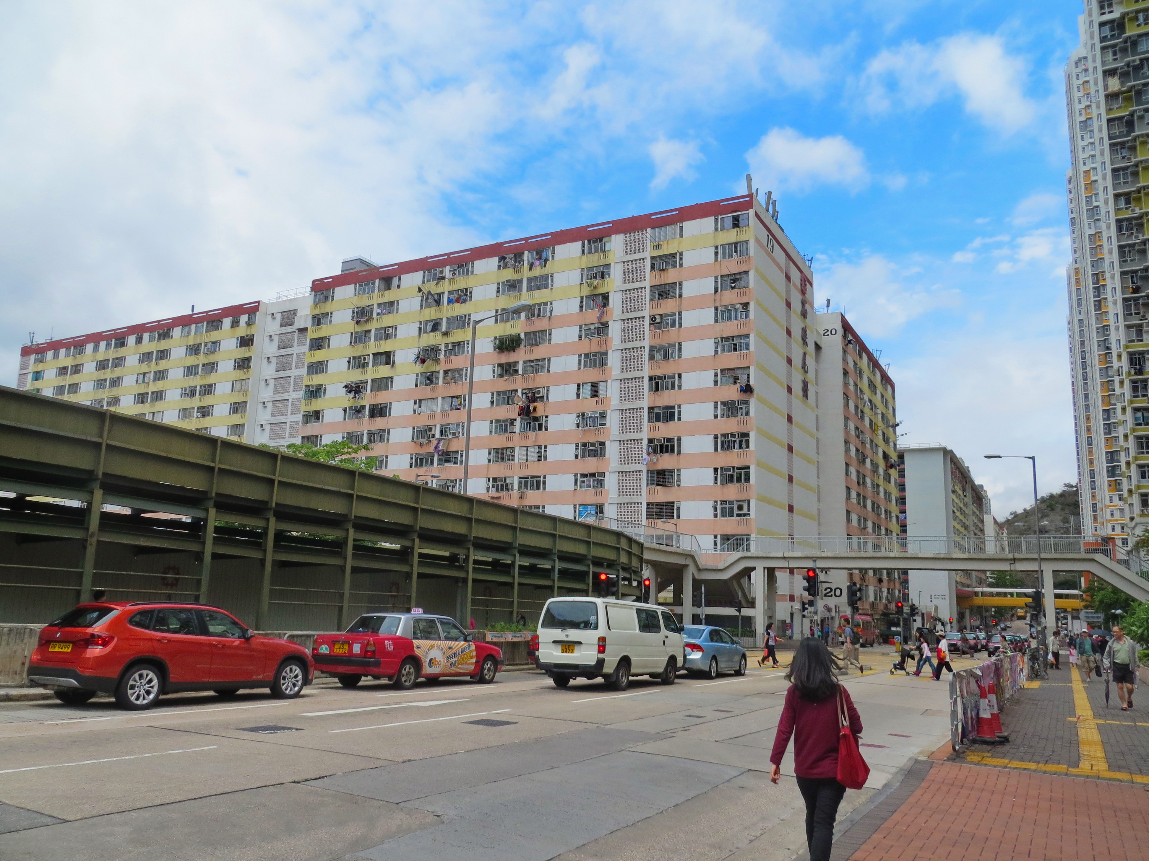 Woh Chai Street, Shek Kip Mei, Kowloon, Hong Kong.